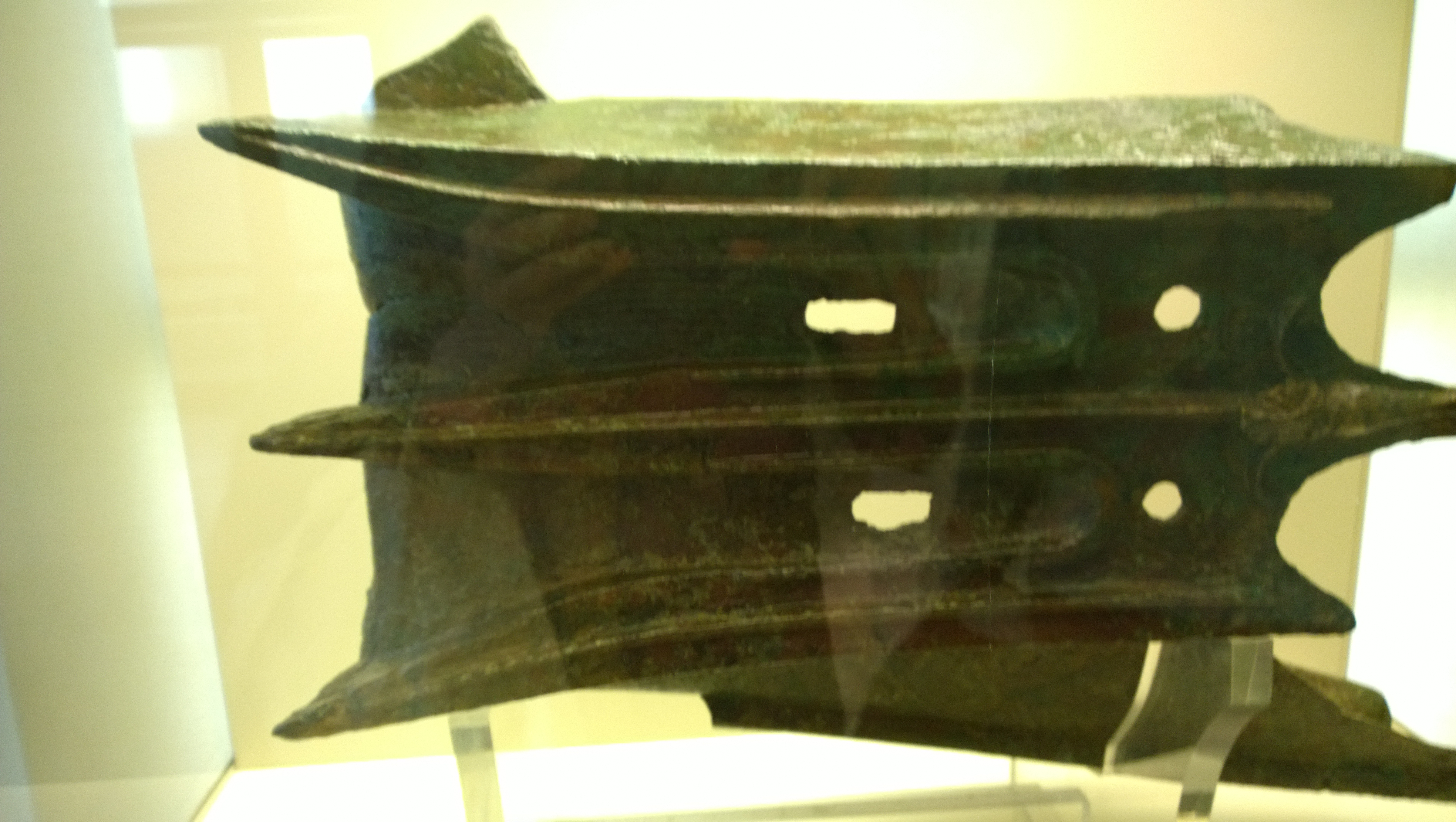 Bronze Trireme Ram at Pireaus Musuem